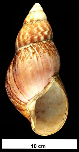 Photo of the apertural view of the shell of Achatina fulica. Locality: Papua New Guinea, Keravat, New Britain, Jun 1951, Dun.